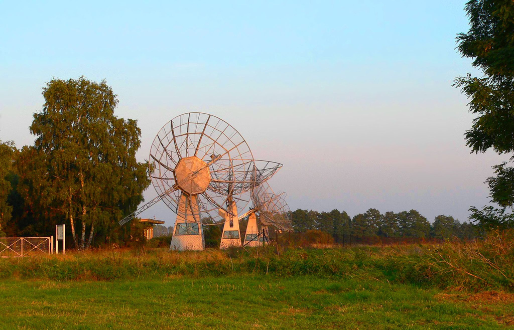 Radio Observatory near Tremsdorf